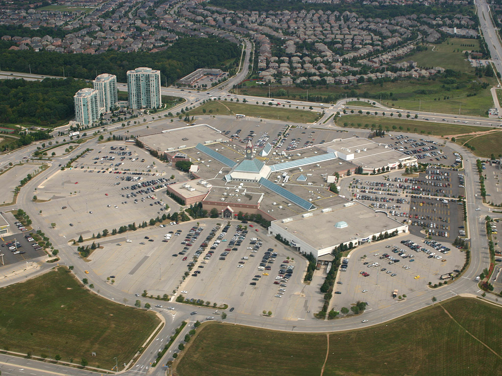 An Aerial photograph of Erin Mills Town Centre in Mississauga, Ontario. August 2006. Duke